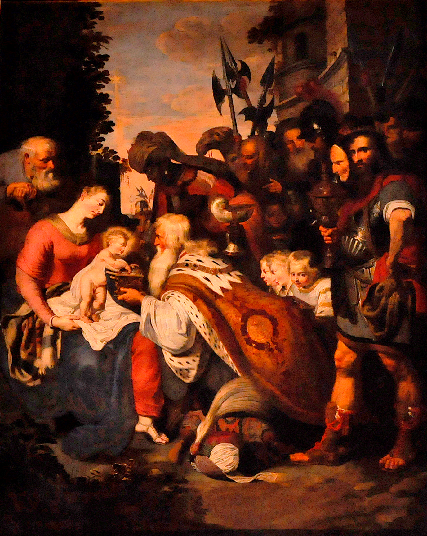 The Adoration of the Magi